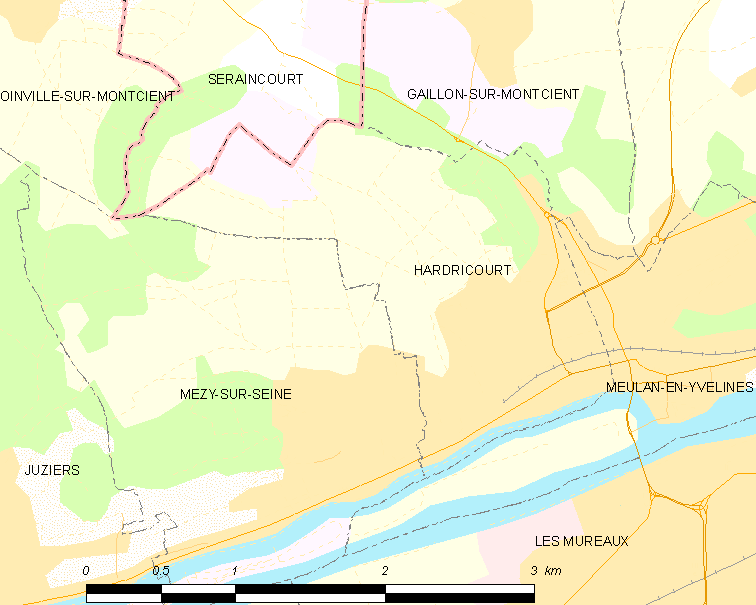 Map of French municipality Hardricourt